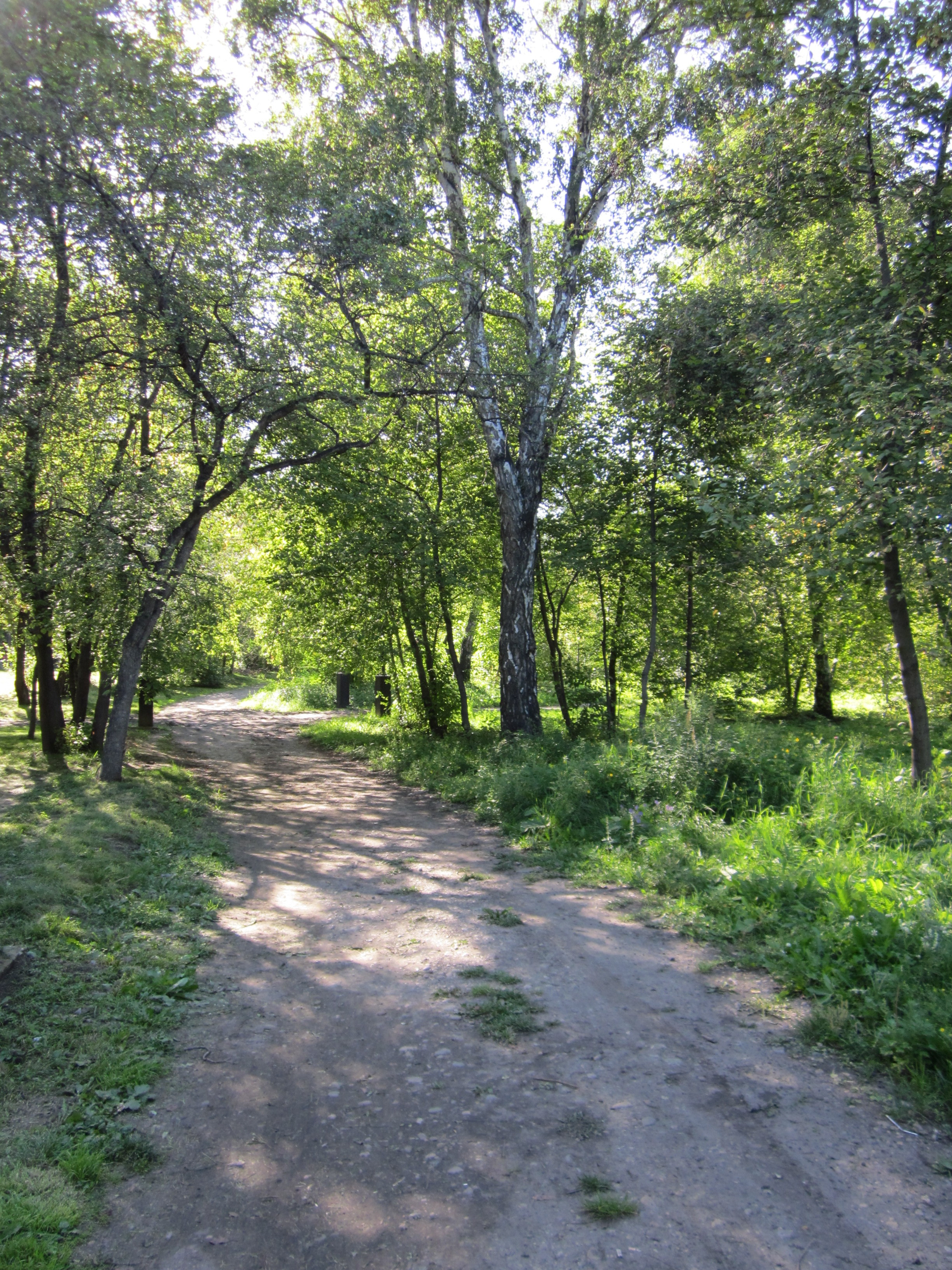 Central Park of Culture and Leisure, Irkutsk, Russia